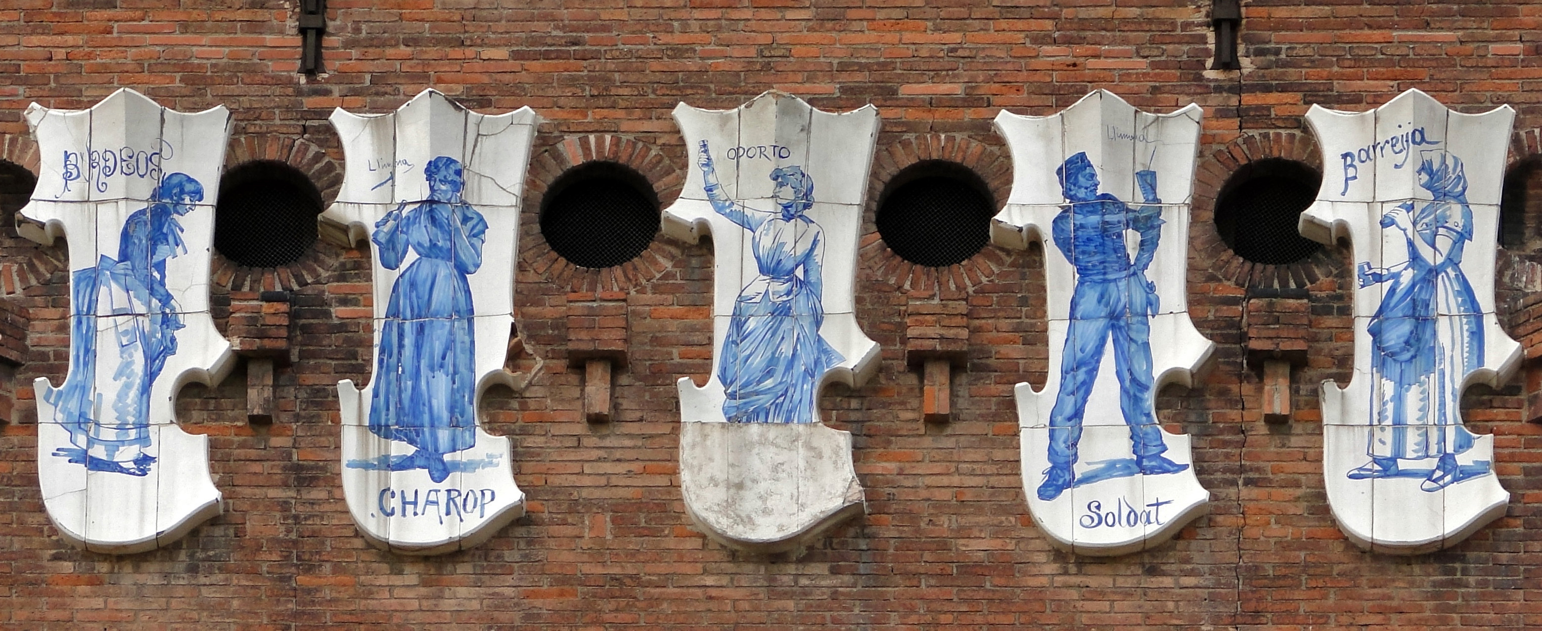 Ceramics on the Castell dels Tres Dragons, Parc de la Ciutadella, Barcelona, Spain